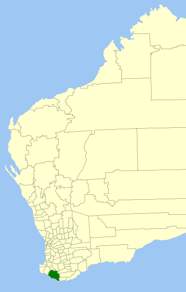 Description=Location of the Local Government Area in Western Australia